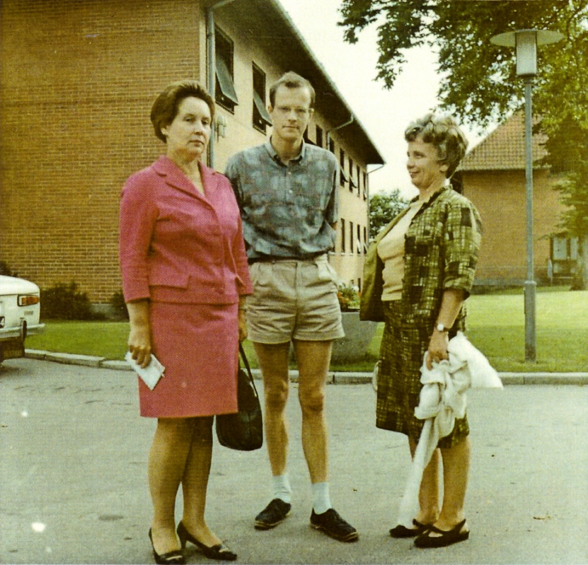 Photograph of the Finnish professors Inkeri Anttila (on the left) and Kaarle Nordenstreng and the Swedish Birgit Eweryd in Nørre Nissum, Denmark.